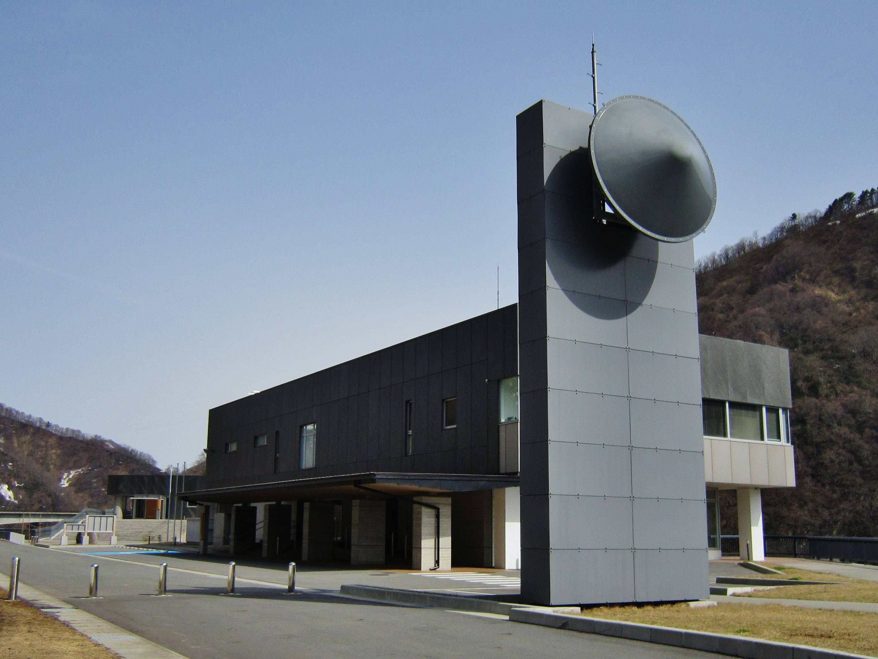 Nagai Dam office.